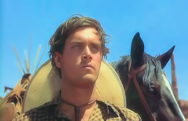 Jeffrey Hunter in The Searchers, a 1956 epic Western film directed by John Ford that tells the story of a man who spends years looking for his niece who was taken by Indians.